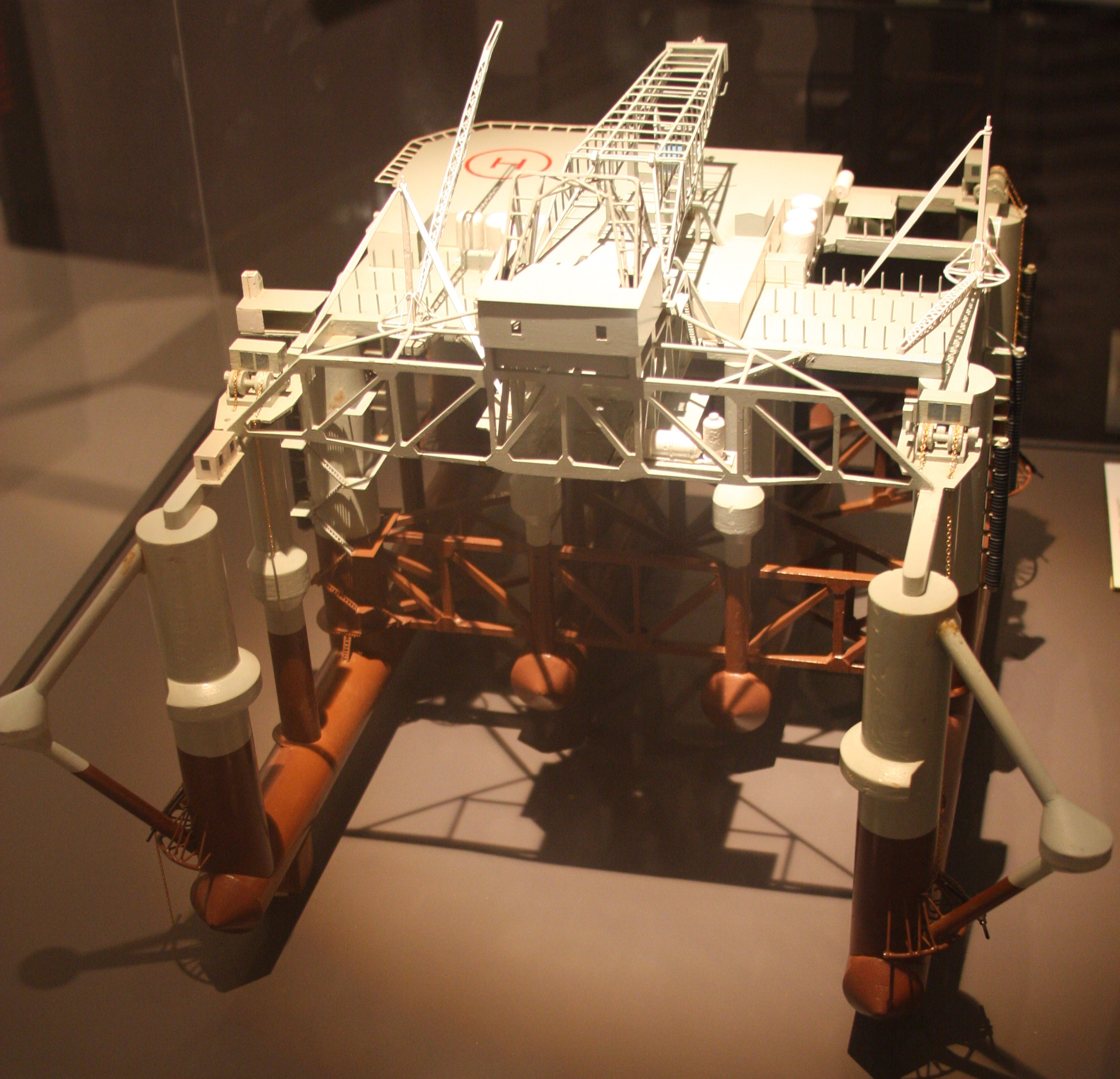 Model of Ocean Viking, a pioneer oil drilling platform built at Nylands verksted, Oslo, 1967. The first exploring vessel on the Norwegian continental shelf of the North Sea. Technical Museum, Oslo.